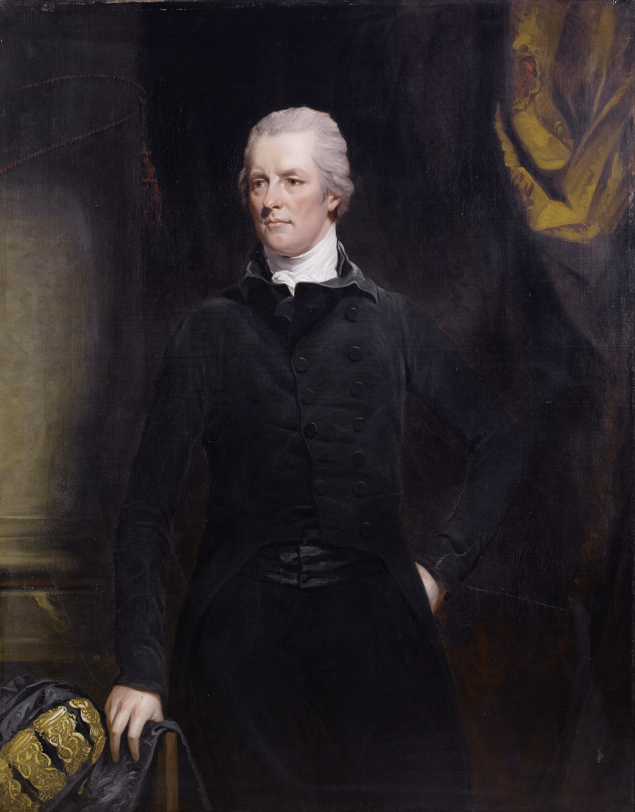 Portrait of the Right Honourable William Pitt the Younger (1759-1806), three-quarter-length, in a black coat, standing before a column and gold brocade drape. The present portrait is one of various versions by Hoppner of Pitt the Younger. The original is considered to be that commissioned by Lord Mulgrave in 1804 and which is now at Cowdray Park. The original portrait was still in the artist’s studio two years later when Pitt died and applications for copies were immediately submitted by Pitt’s friends and colleagues. The provenance of the Marquesses of Londonderry is of particular note, given that Robert Stewart, first Marquess of Londonderry, was elevated to the peerage by Pitt as Baron Londonderry in 1789. He was later created Viscount Castlereagh on 1 October 1795, Earl of Londonderry on 8 August 1796, and later Marquess of Londonderry after Pitt’s death. Lord Castlereagh played an important role throughout Pitt’s attempts to reform the Irish Parliament and to bring about greater unity between Westminster and Dublin.